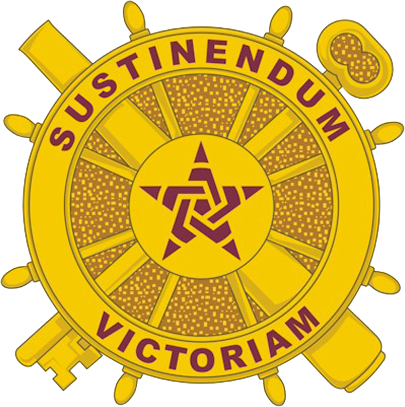 United States Army Logistics Branch Insignia. Made with Photoshop.